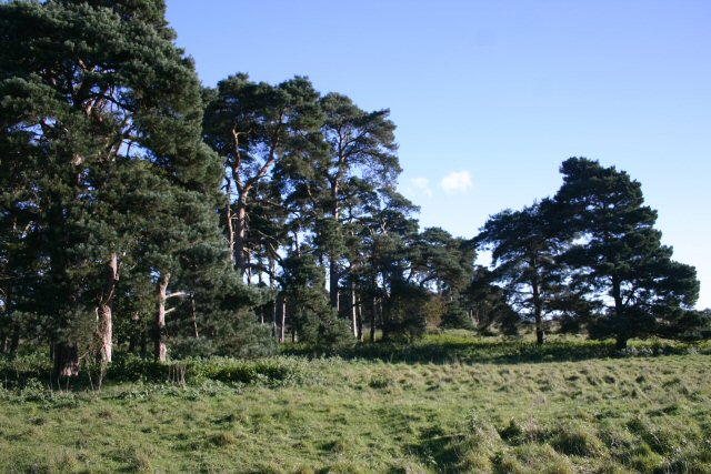 General Stracey's Covert A small plantation north of Icklingham.